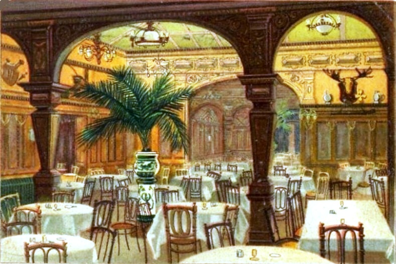 Luchow's ca. 1902. "Garden" as seen from "Cafe" showing effect created by skylights added in extensive 1902 construction. The big arched opening is actually a mirror. Gas lighting fixtures are shown. To the left is the door where the headwaiter stood. Within, R. is the office - later a semi-private dining room. This is a drawing from a Postcard of Luchow's ca. 1905 with edges cropped to show only the here visible drawing of the restaurant interior. The artist is unknown. It is probable that this was one of a number of similar postcards made in order to draw attention to the rooms depicted, which were completed in a major construction project and opened in 1902. Gas lighting fixtures are shown. Postcard has been slightly spindled or mutillated. (See brown column R.)